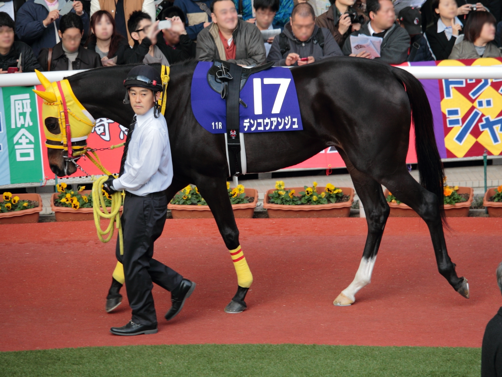 Denko Ange (Racehorse of Japan).